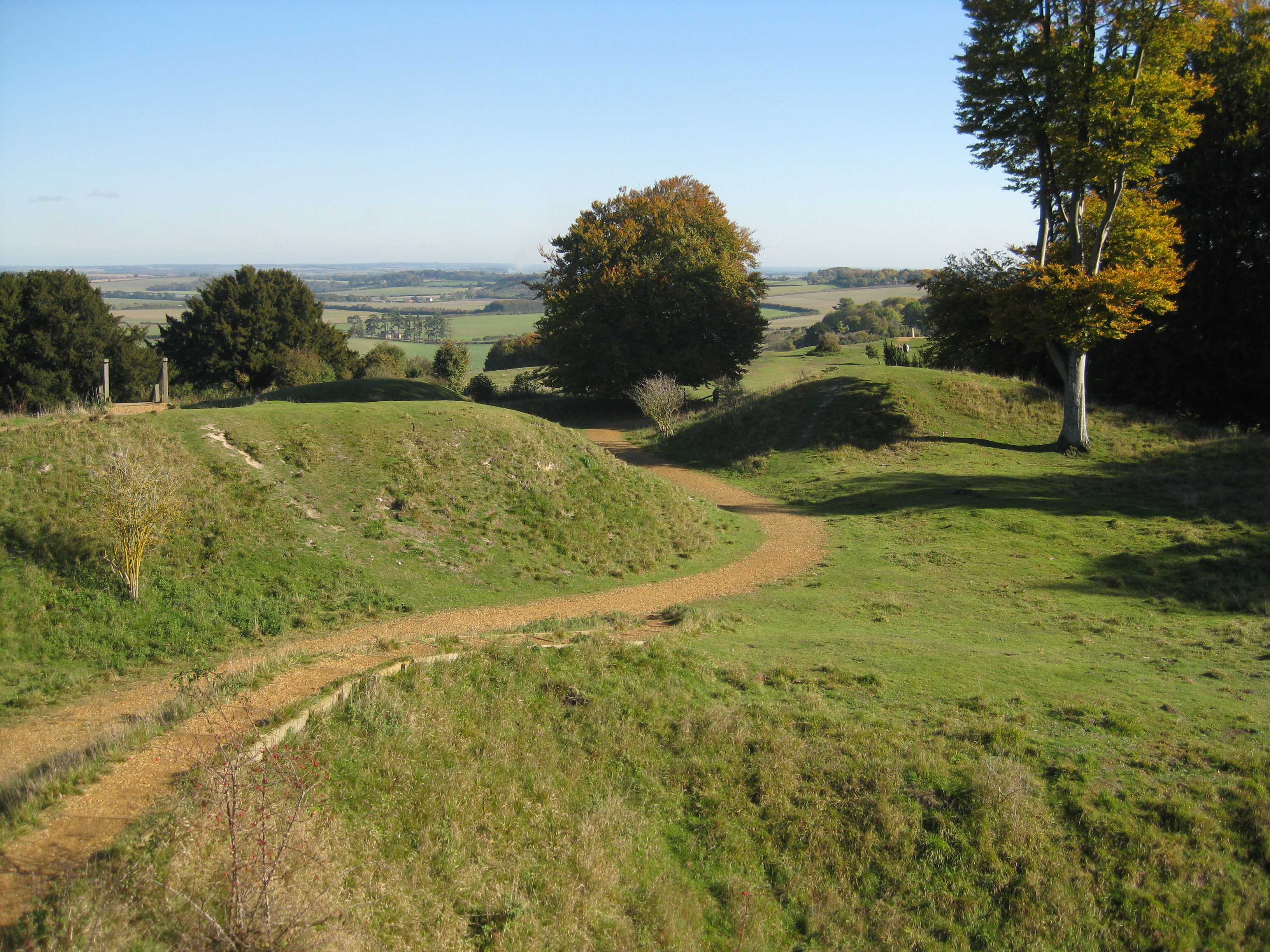 Atlas of Hillforts 3580 Badbury Rings, an iron age hill fort in Dorset. Main entrance, gap in outer ring